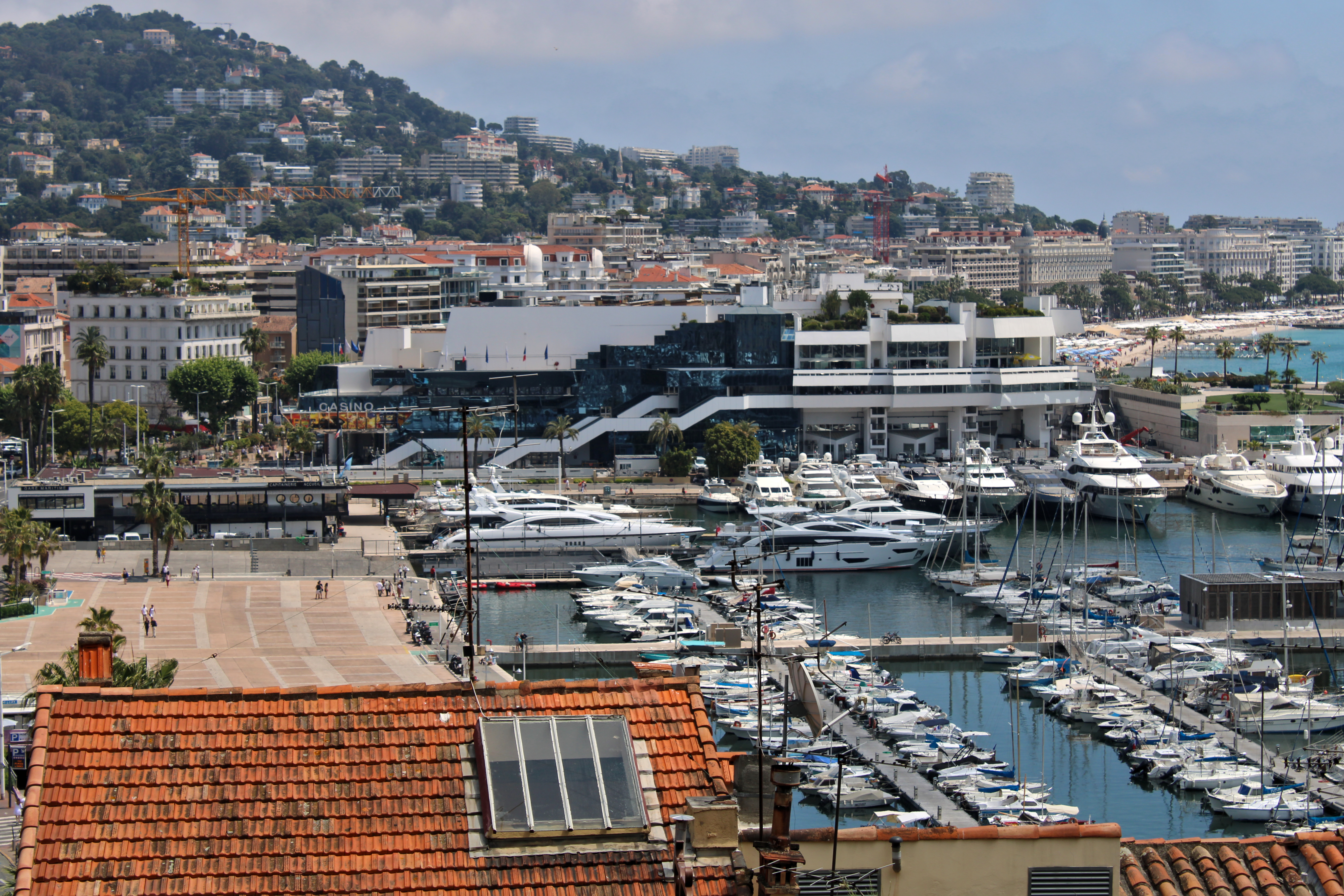 Palais des festivals et des congres de Cannes